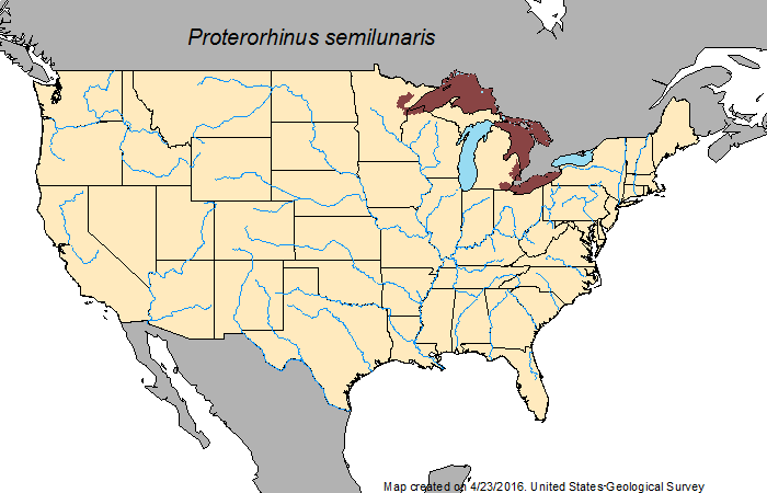 The range of the Tubenose Goby in North America is shown by the red on the map. The Tubenose Goby was originally introduced into the St. Clair River in Michigan. The range of the tubenose goby has been spreading.